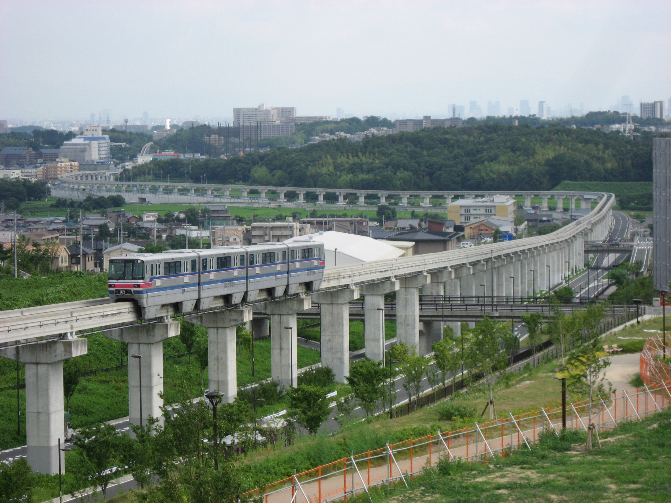 A train approaches to Saito Nishi station.